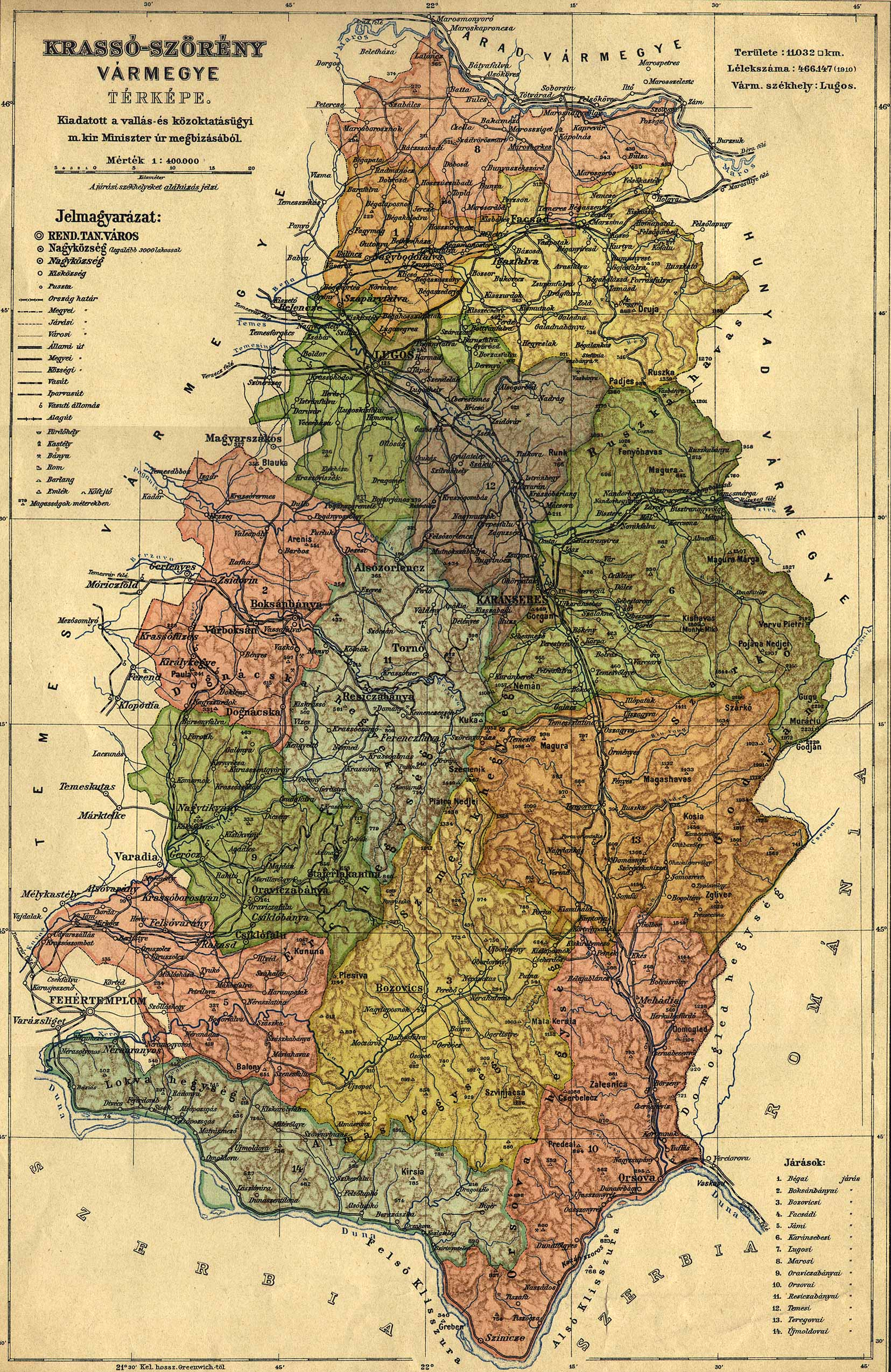 County of Krassó-Szörény in the pre-Trianon Kingdom of Hungary